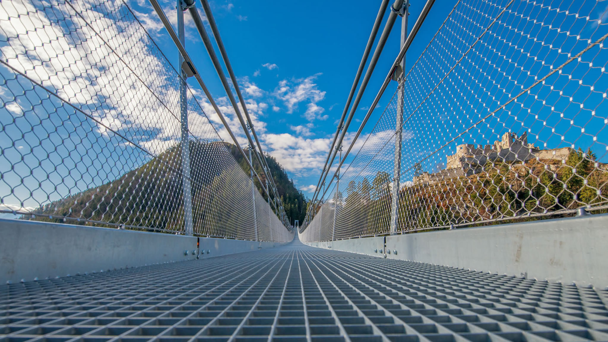 highline179 after completion